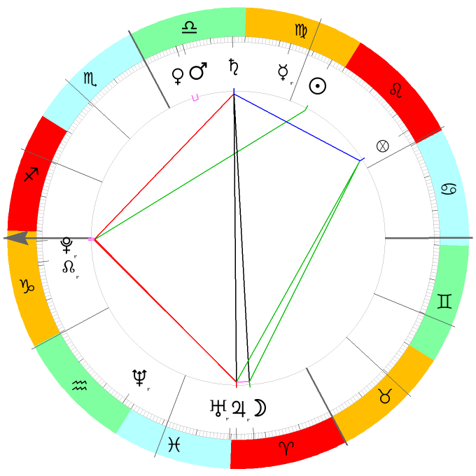 An example of astrological chart, made with AstroFox software, which allows CC-BY-SA 3.0 licensing. Particular chart has been made for Fri, 27.8.2010. [16:06:13] (DST) CEST, 20°E28'00"; 44°N49'00". Purpose: demonstrating various elements of charts, including sects and hayz position.